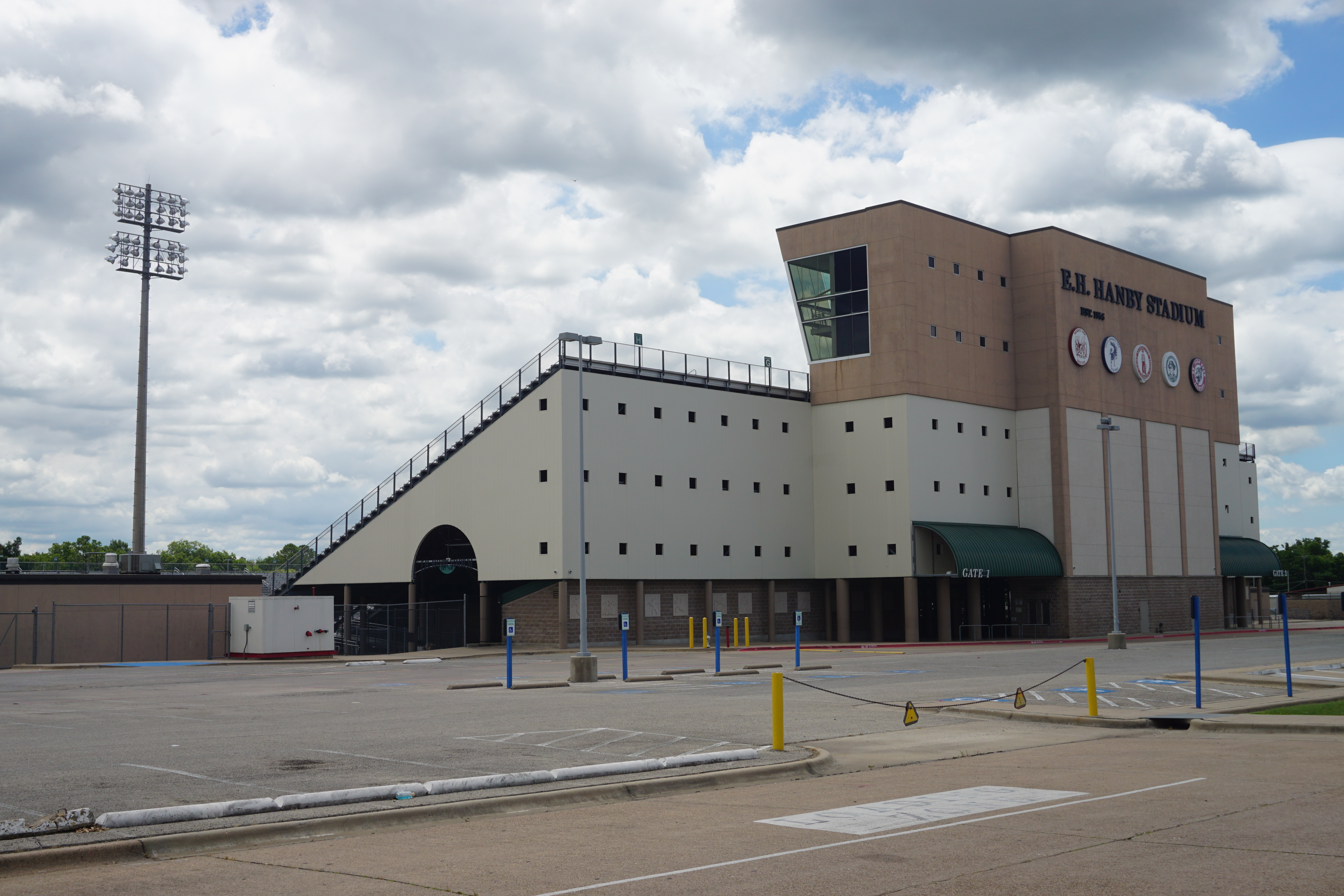 E. H. Hanby Stadium in Mesquite, Texas (United States).